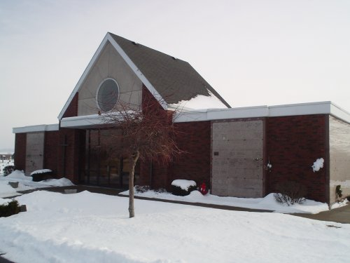 This is a picture of St. Joseph's Chapel Mausoleum at Mount Olivet Cemetery in Key West (rural Dubuque), Iowa. I took this photo in December of 2005. Jesster79 21:50, 23 December 2005 (UTC)